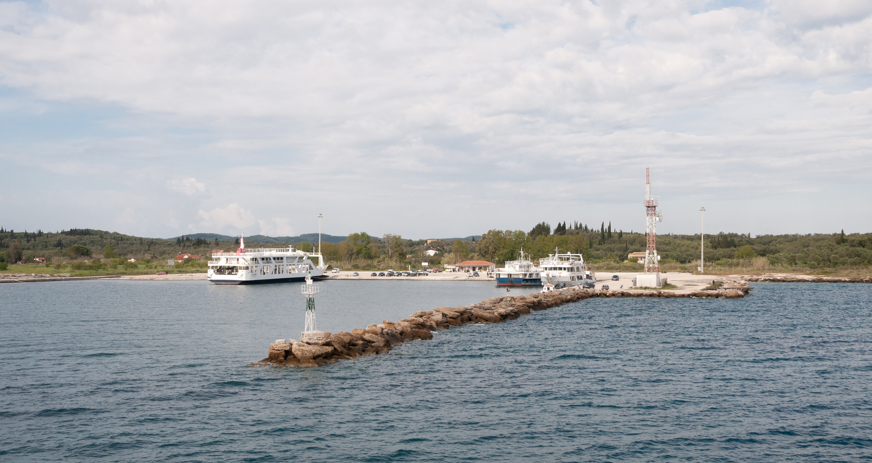 The ferry port of Lefkimmi on Corfu island in Ionian sea, Greece.